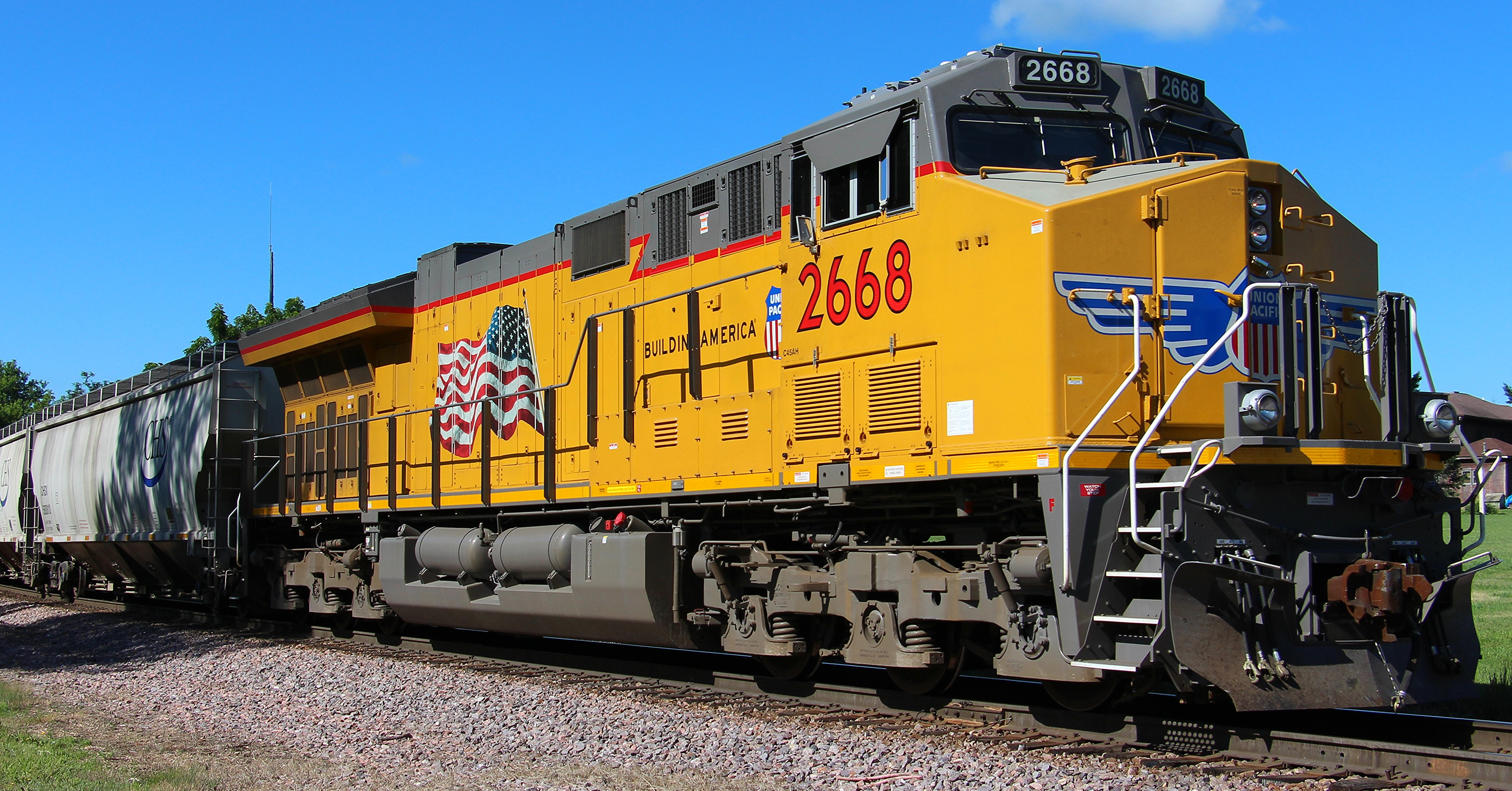 General Electric ET44AH locomotive of the Union Pacific Railroad.